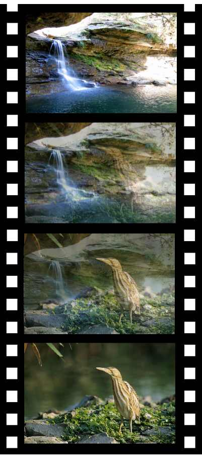 This is a graphical representation of a part of a movie containing a "dissolve" (a kind of "soft cut").